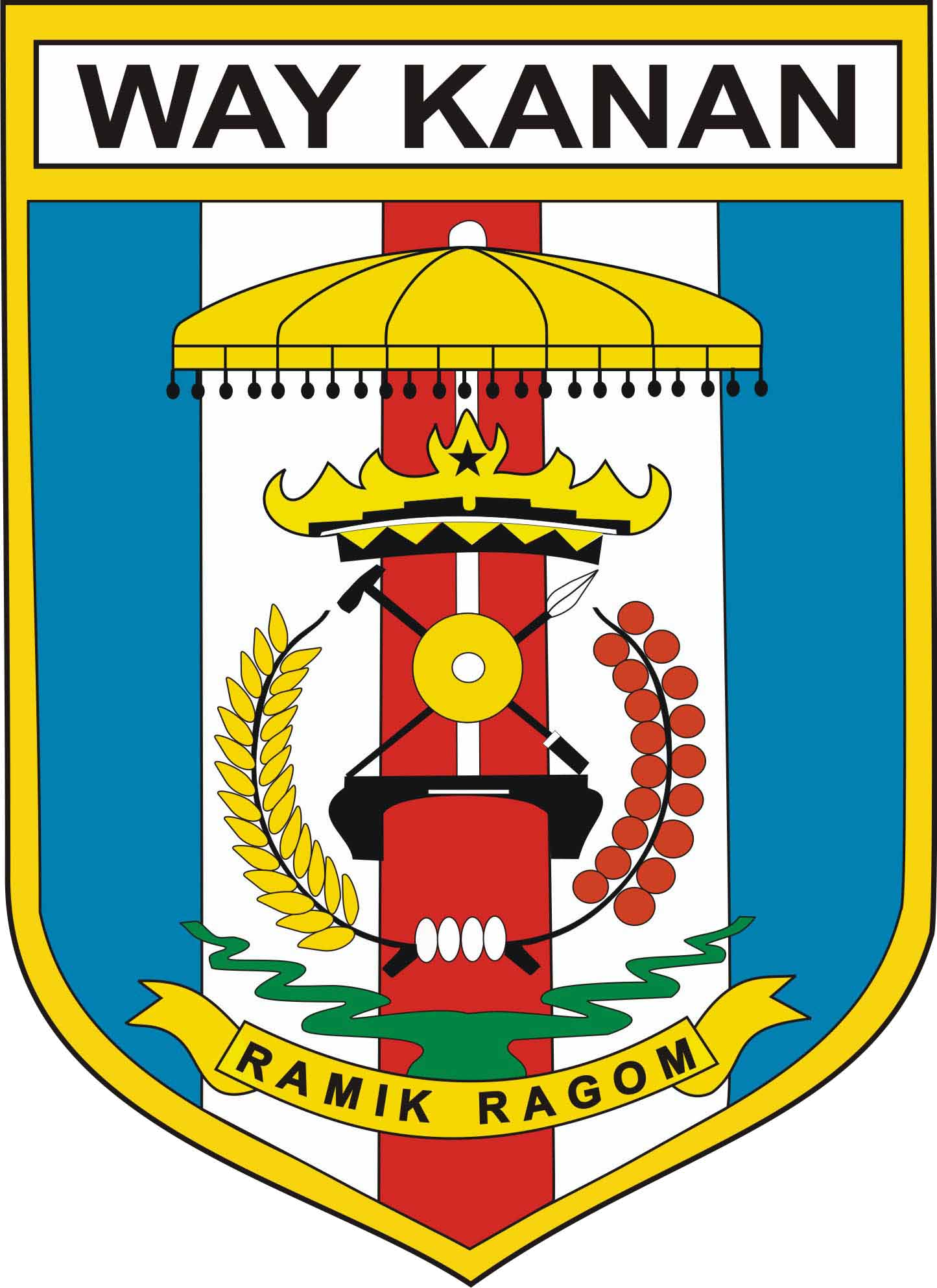 Coats of arms of Way Kanan Regency